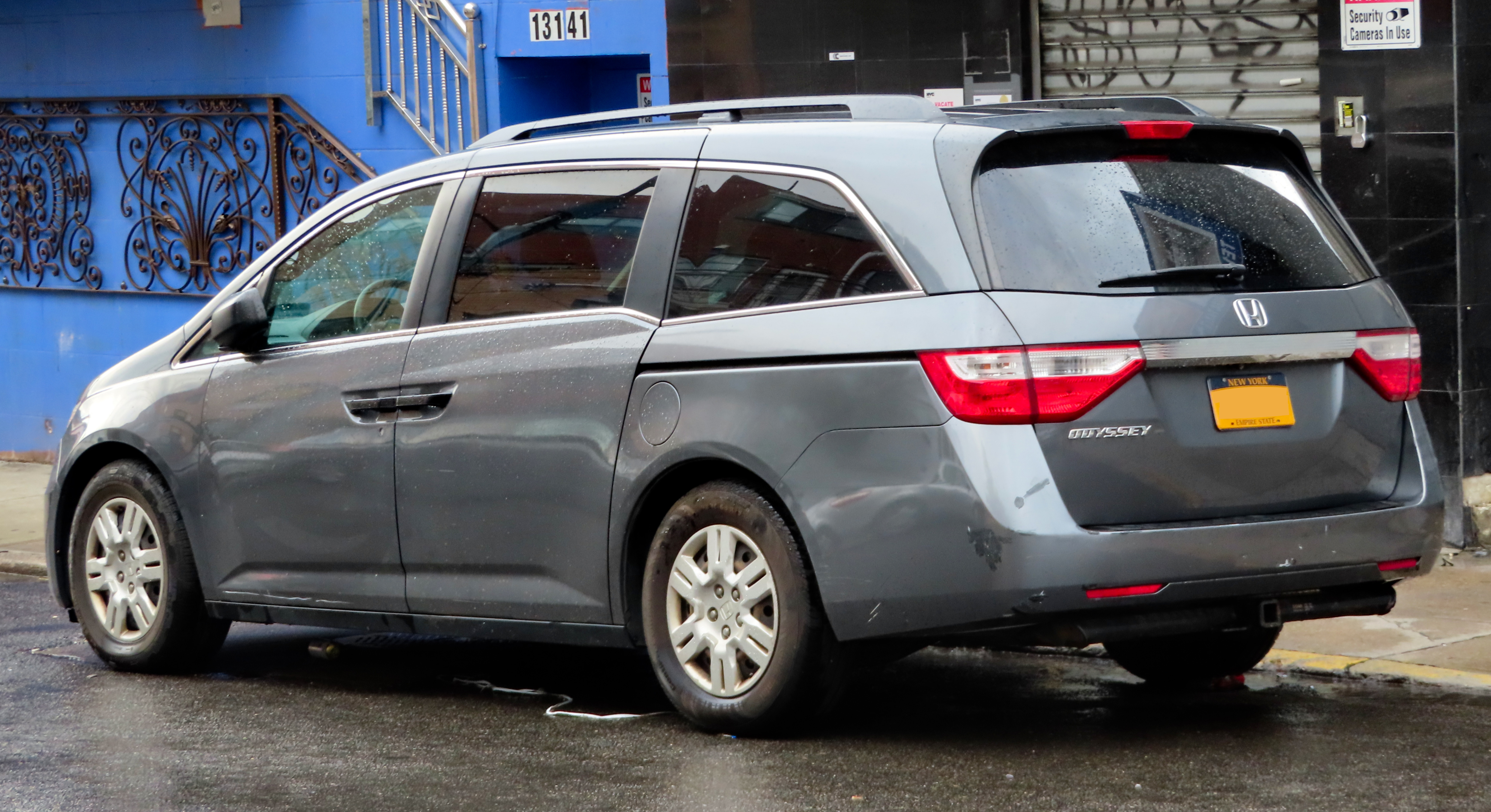 A 2013 Honda Odyssey LX photographed in Flushing, Queens, New York, USA